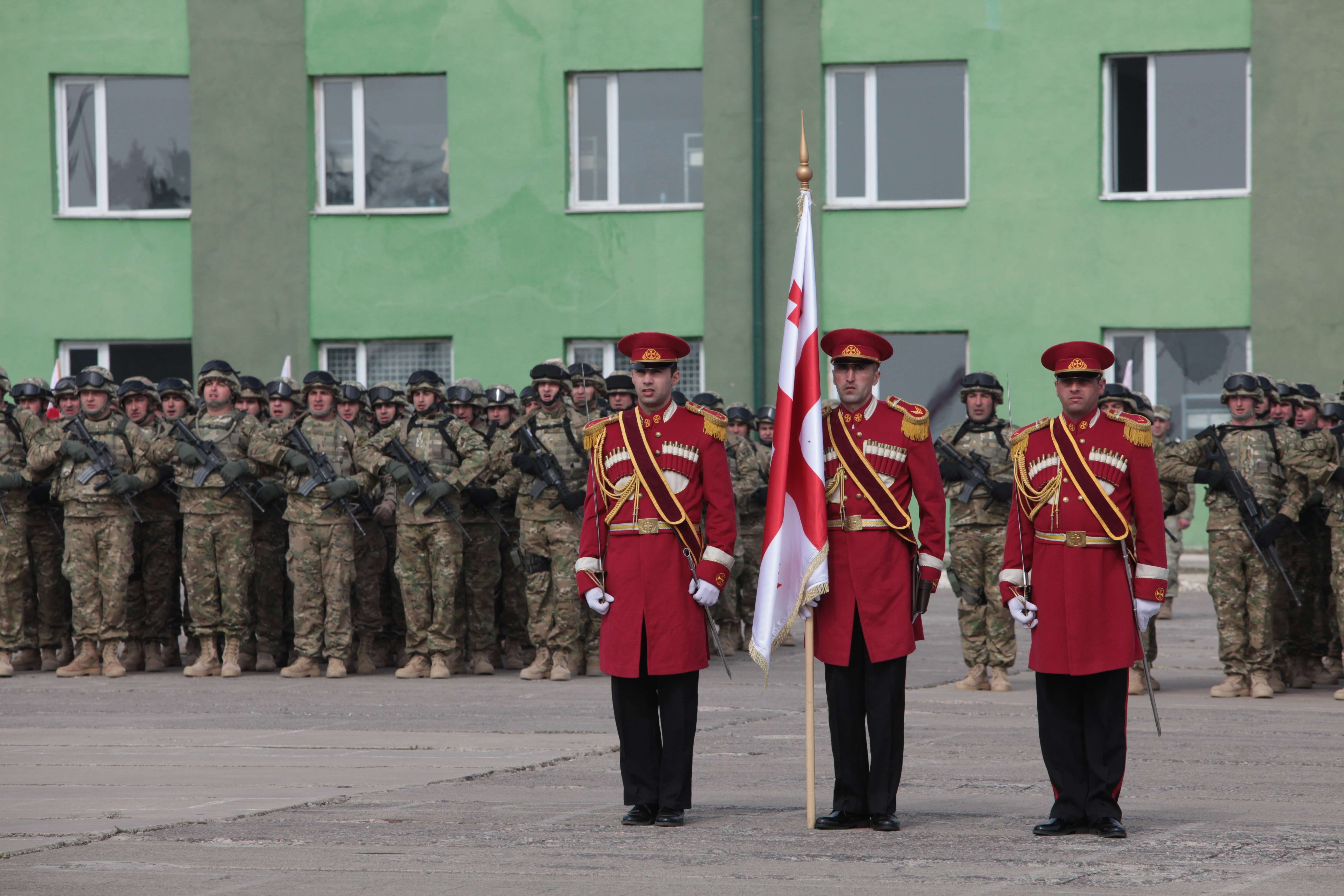 A color guard team from the Republic of Georgia Army stands at atenttion during the deployment ceremony for the 42nd and 33rd infantry battalions, March 22, 2013. Read more